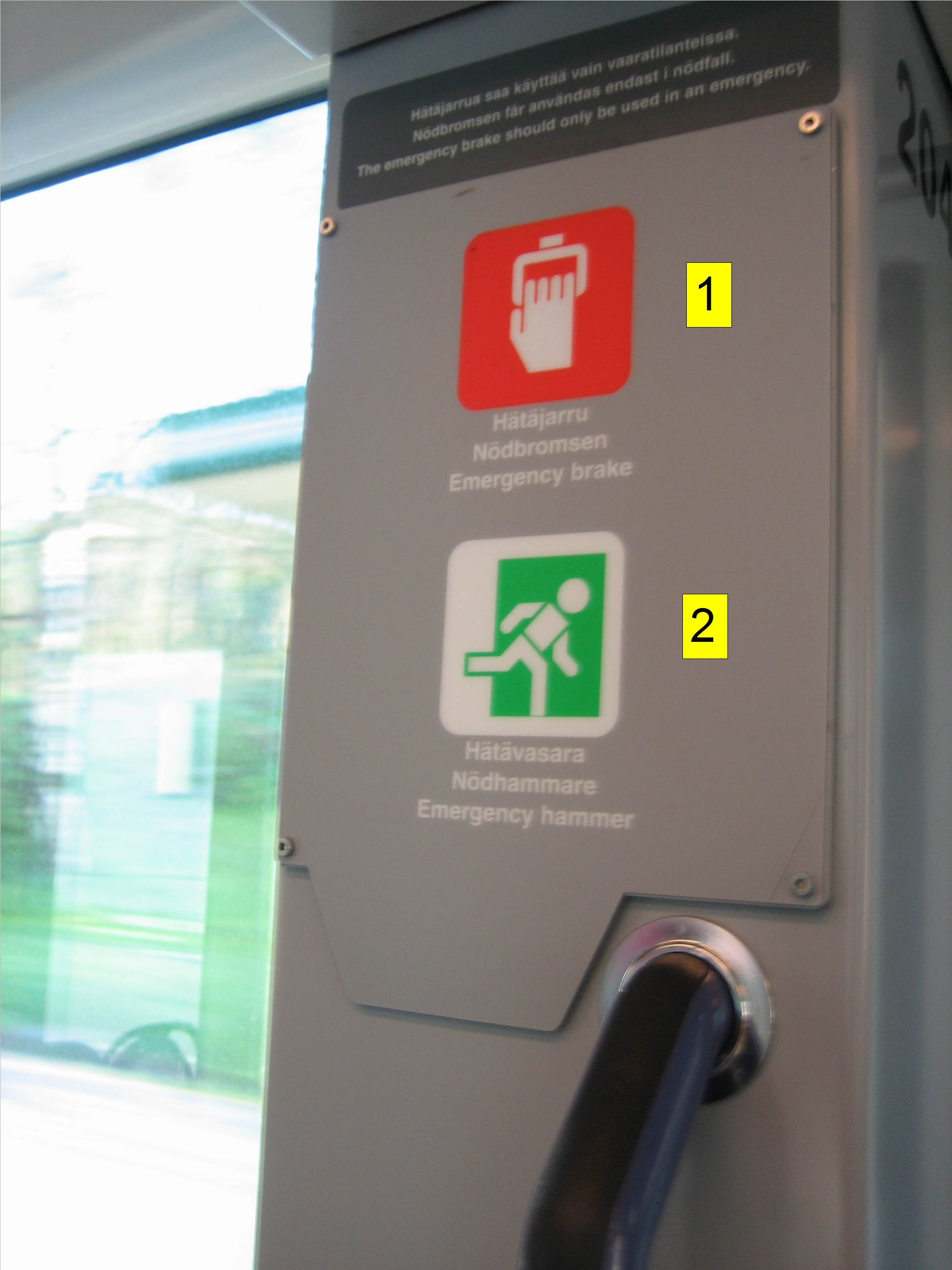 An emergency brake (1) and an emergency hammer (2) in the vicinity of a tram door. The brake and the hammer are covered, but easily available if necessary. The hammer is used to brake the safety-glass windows used as an emergency exits.